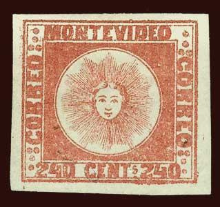 Uruguay 1858 'Sol de Montevideo' or 'Sol Doble Cifra' issue, mint. APS-APEX certified.